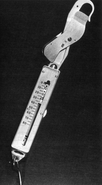 This weighing scale measures the weight of an object using an internal spring and its known spring constant. It can be affixed to a stationary object by the hook on top, while an unknown weight hangs by the hook on the bottom, deflecting the spring and moving the weight indicator along the graduated scale printed on the spring housing. A knob on the side of the spring housing allows the user to calibrate the weighing scale to zero. This sort of scale can also be used to measure any force in any direction transmitted through the scale.